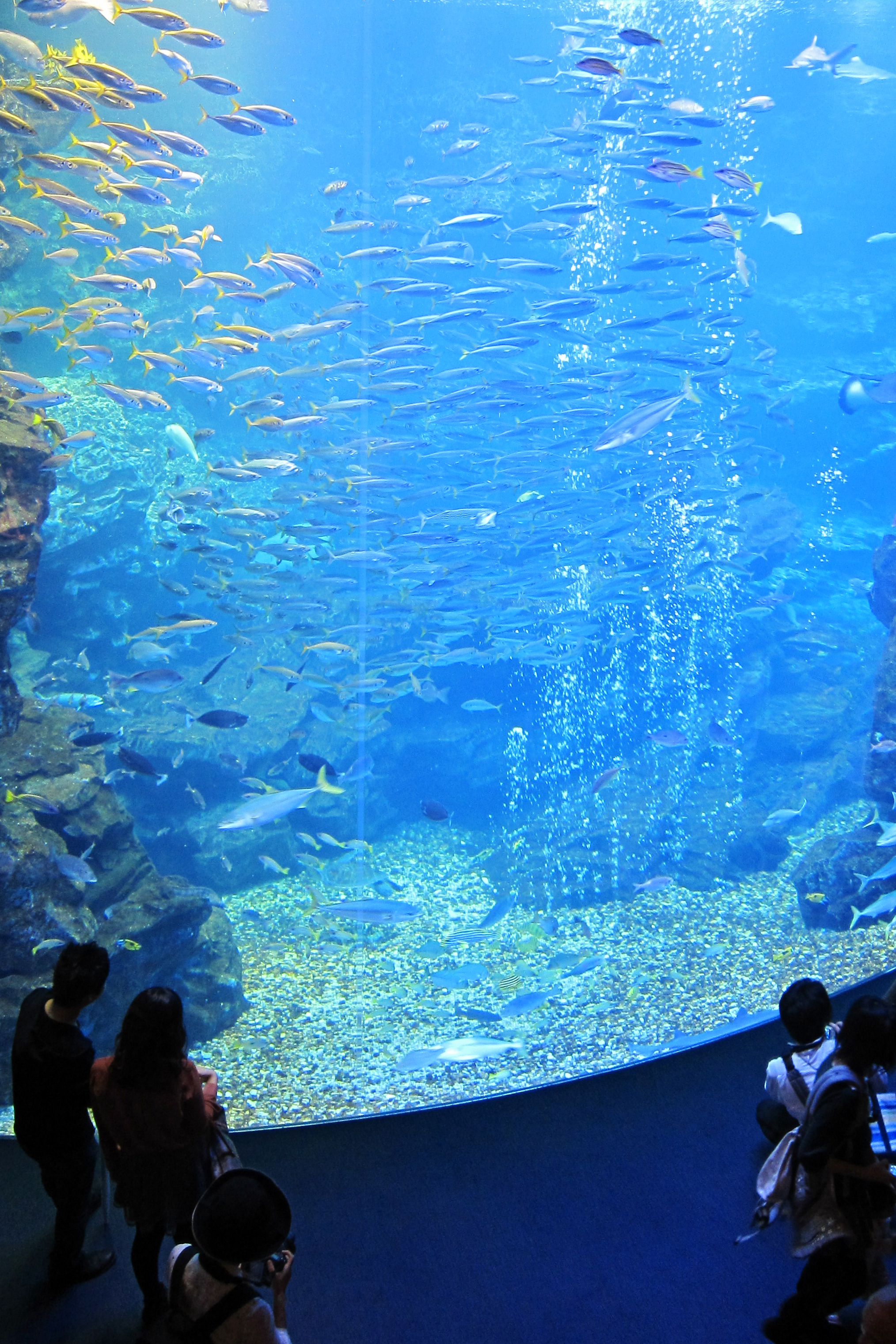 Kyoto Aquarium (京都水族館), Kyoto, Kyoto prefecture, Japan